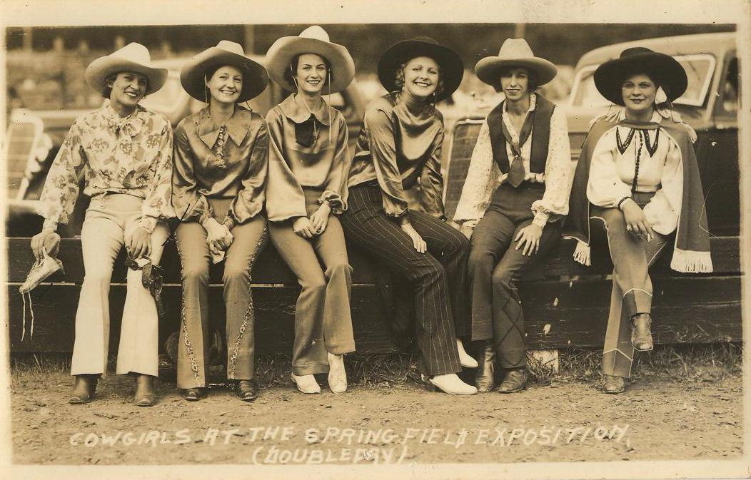 Cowgirls at the Springfield Exposition